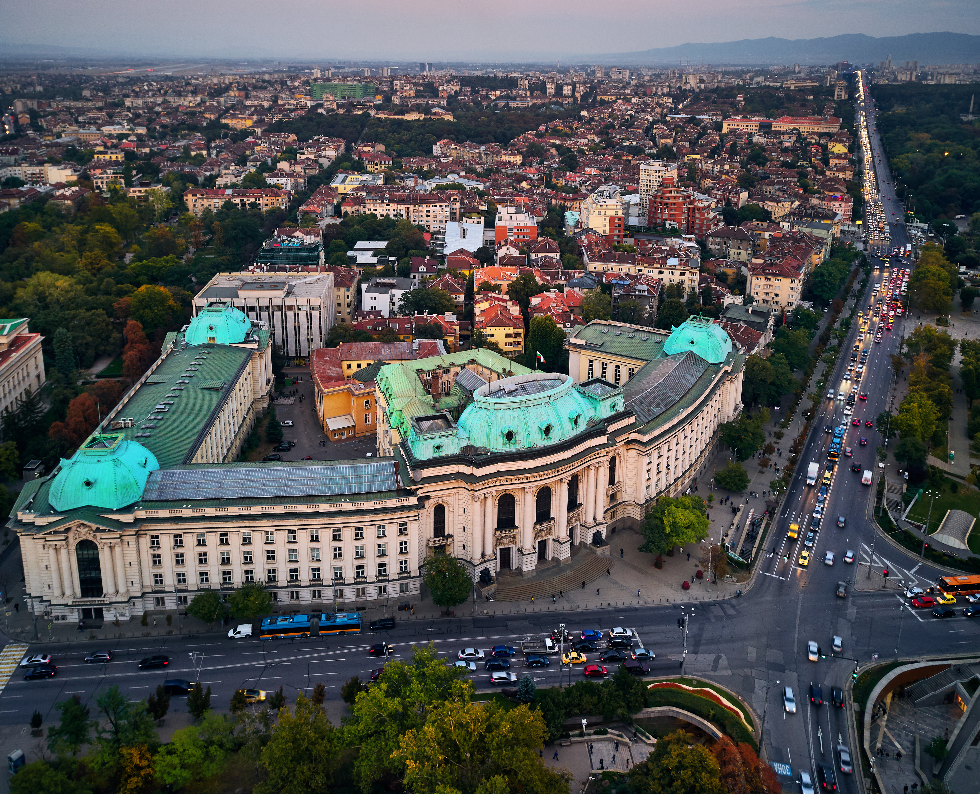 The main building (Rectorate) of Sofia University "St. Clement of Ohrid"